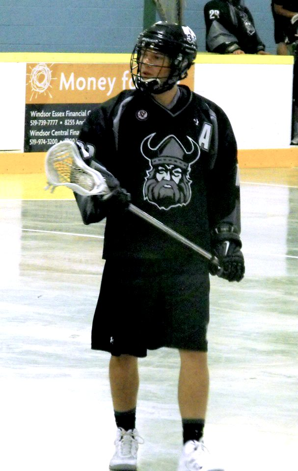 These images of Ontario Junior B Lacrosse Action action during the 2014 season are taken by Devan Mighton.